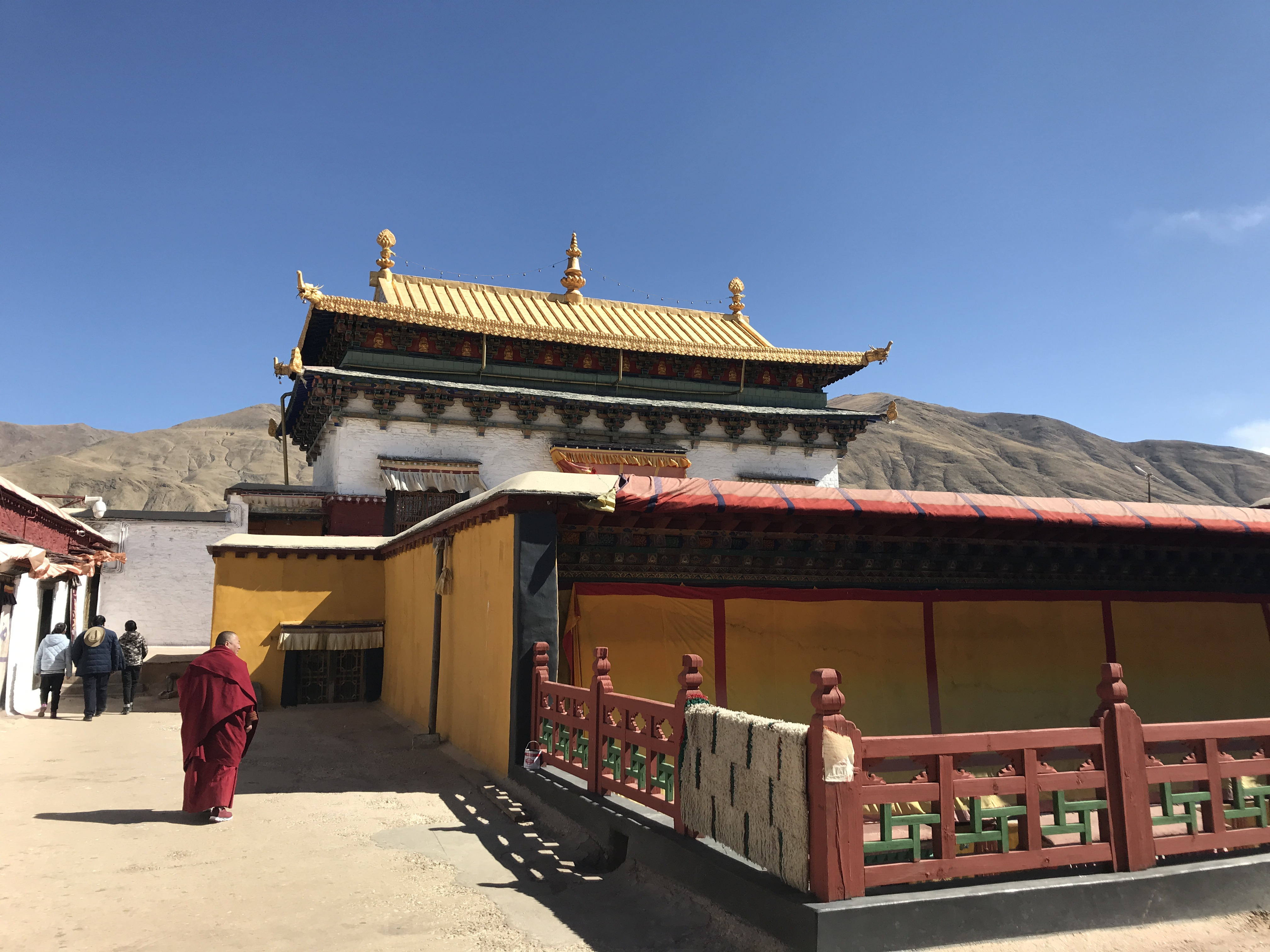 Inside Tradruk Monastery.